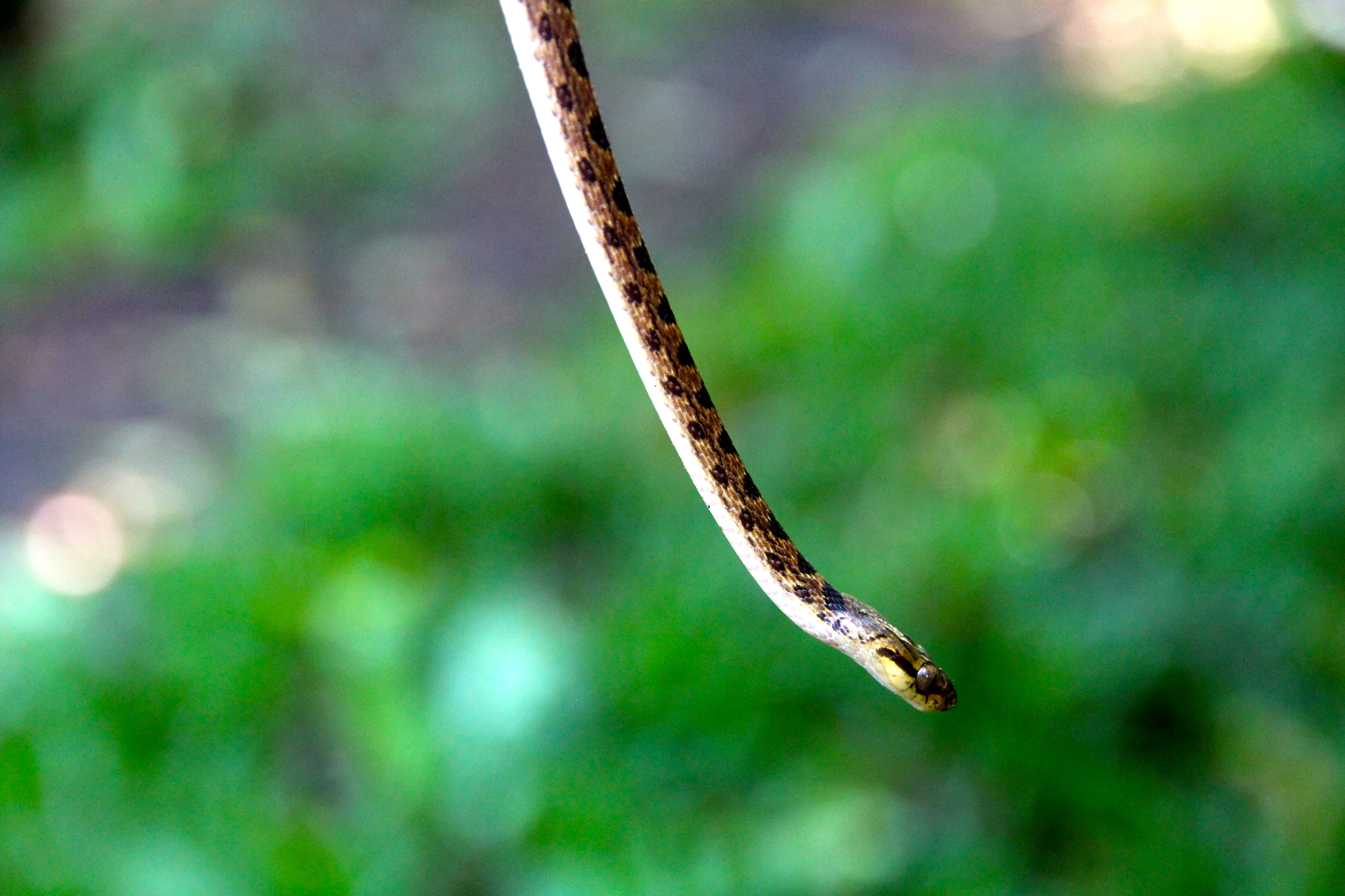 A Northern Cat Eye Snake's head in 2016 at Golfo Dulce Retreat.